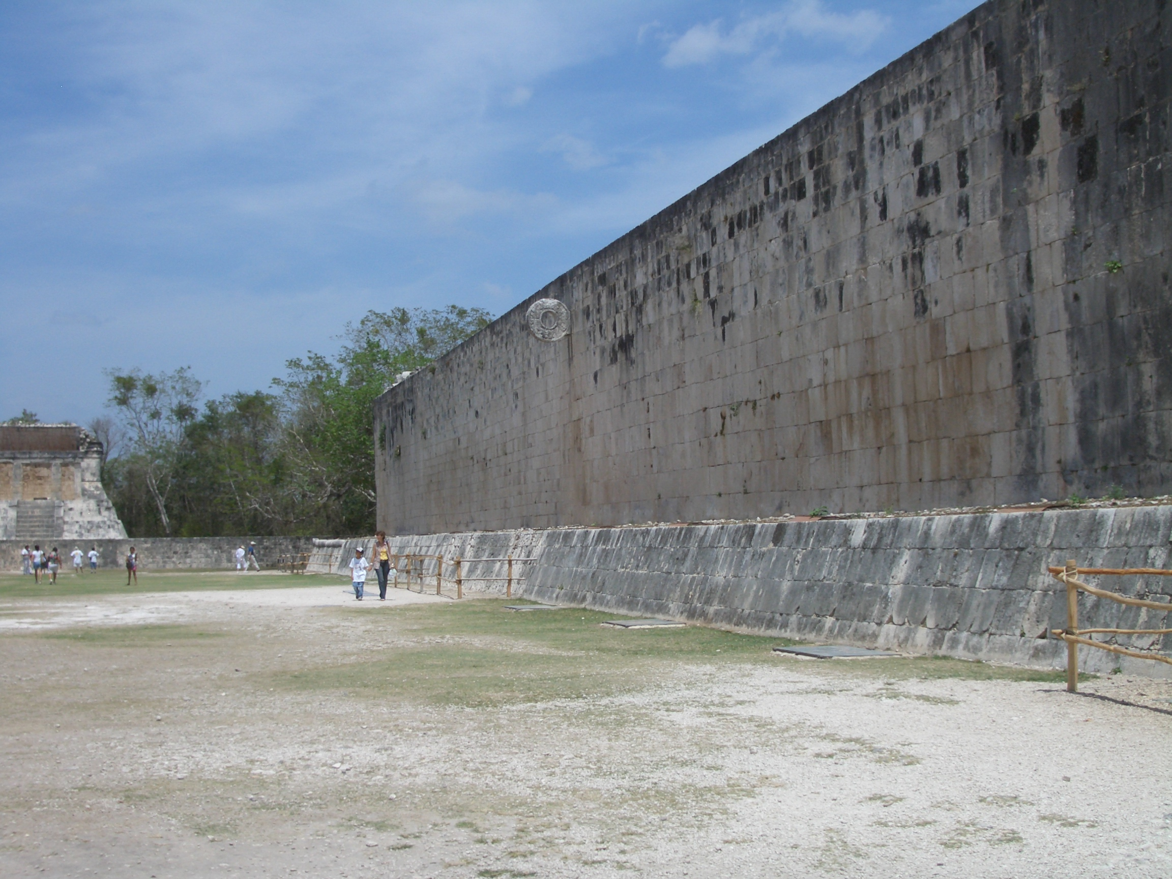 Interior of the Great Ballcourt at Chichen Itza, taken April 2005